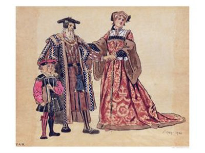 C. Wilhelm design, c.1900 for As You Like It